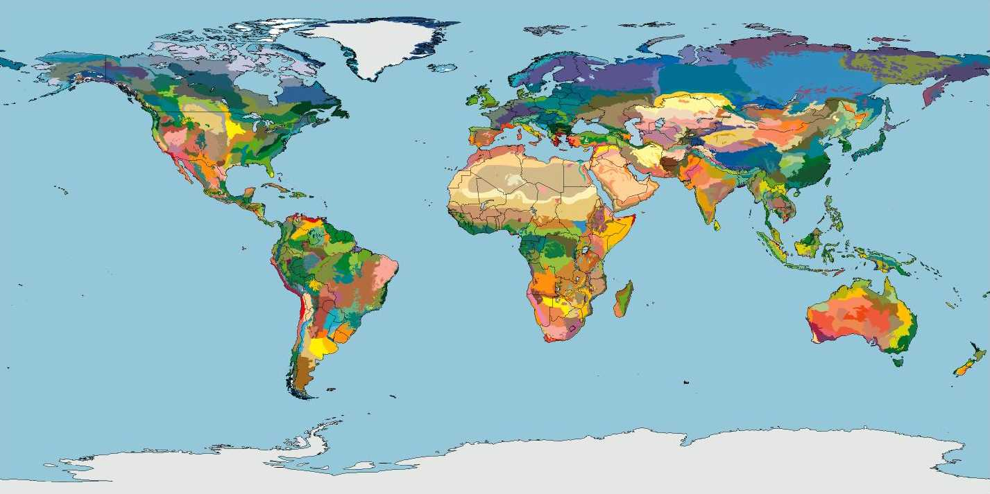 Terrestrial Ecoregions of the World (Olson et al. 2001, BioScience). As long as there is no explanation for the different colours, this map remains unuseable